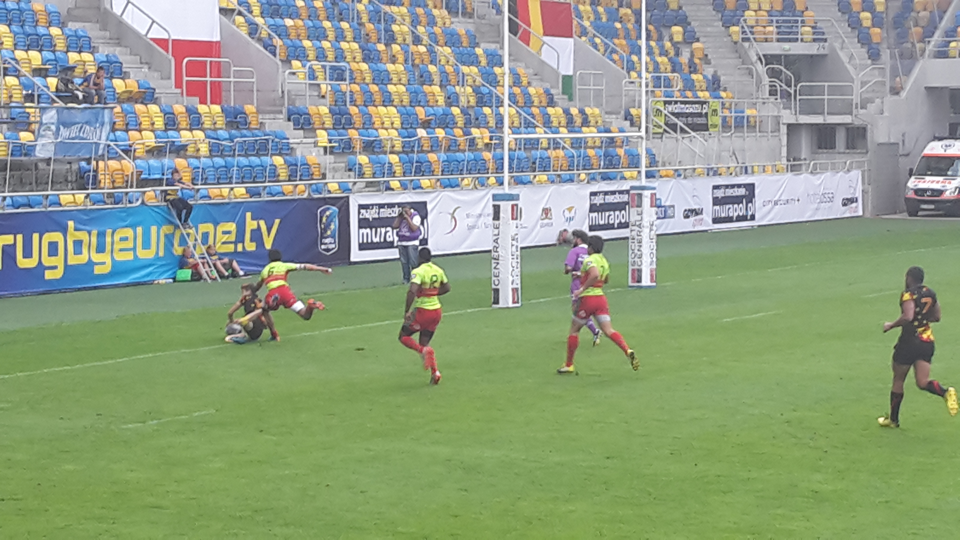 Rugby sevens tournament Gdynia Sevens 2016. Match Belgium-Portugal.